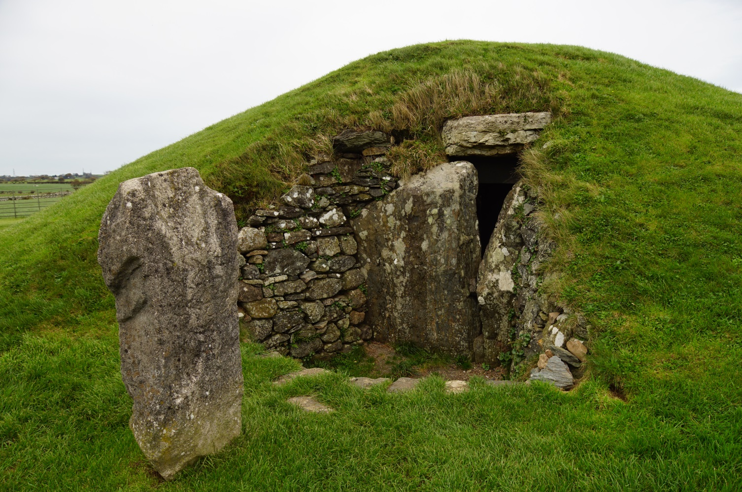 Bryn Celli Ddu Burial Chamber, Anglesey, Wales. West side with replica of the so called "pattern stone".